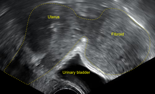 A transvaginal ultrasonography showing a subserosal uterine fibroid with a diameter of 5 centimeters.